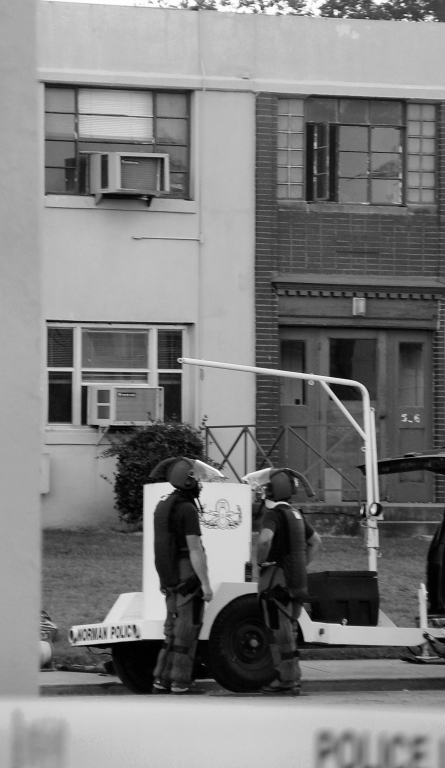 Bomb squad prepares to enter the apartment of Joel Henry Hinrichs III, who was responsible for the October 1, 2005 OU bombing